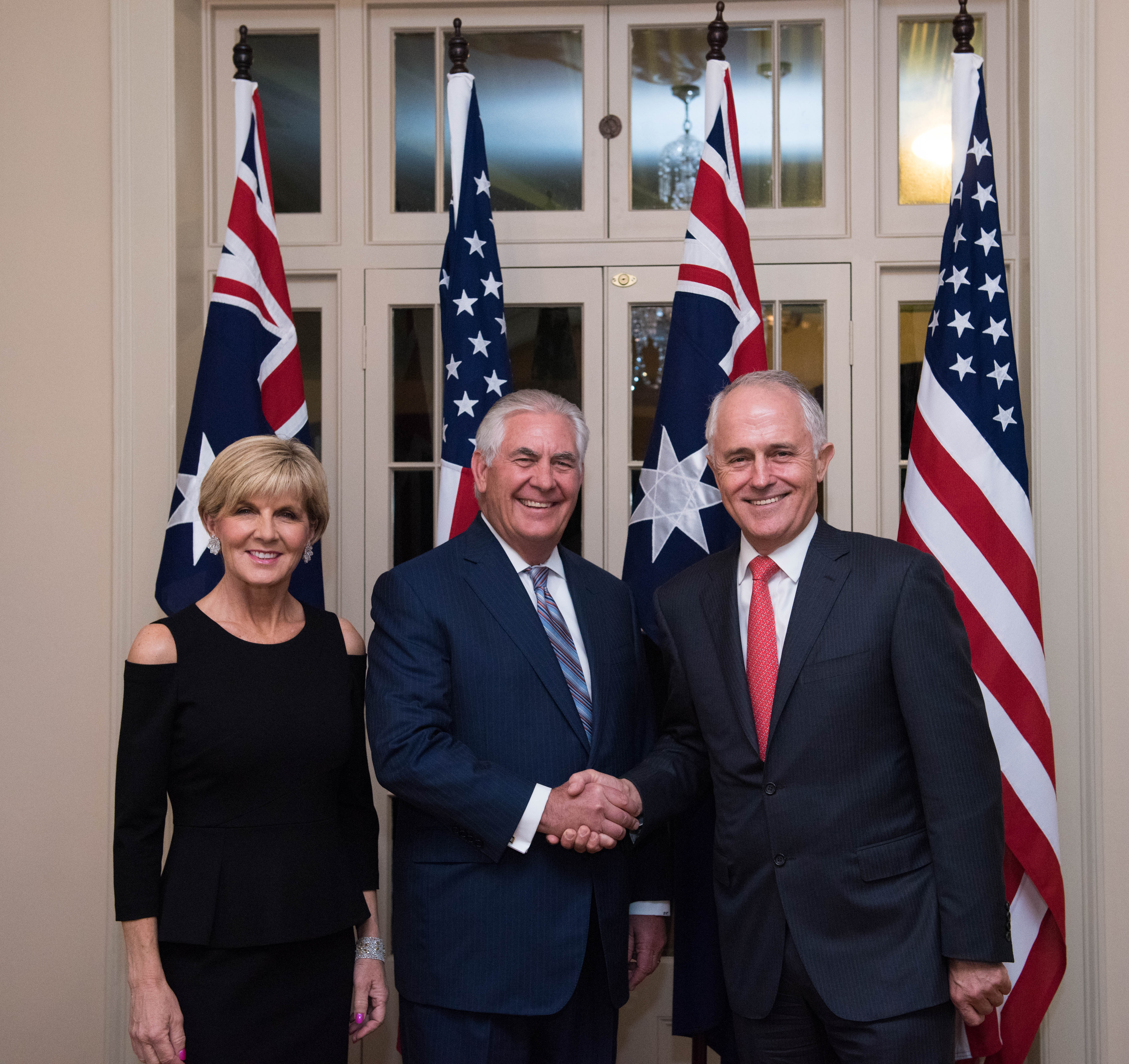 U.S. Secretary of State Rex Tillerson, Australian Foreign Minister Julie Bishop, and Australian Prime Minister Malcolm Turnbull pose for a photo at the AUSMIN dinner at the Kiribilli House in Sydney, Australia, on June 5, 2017. [State Department Photo/ Public Domain]